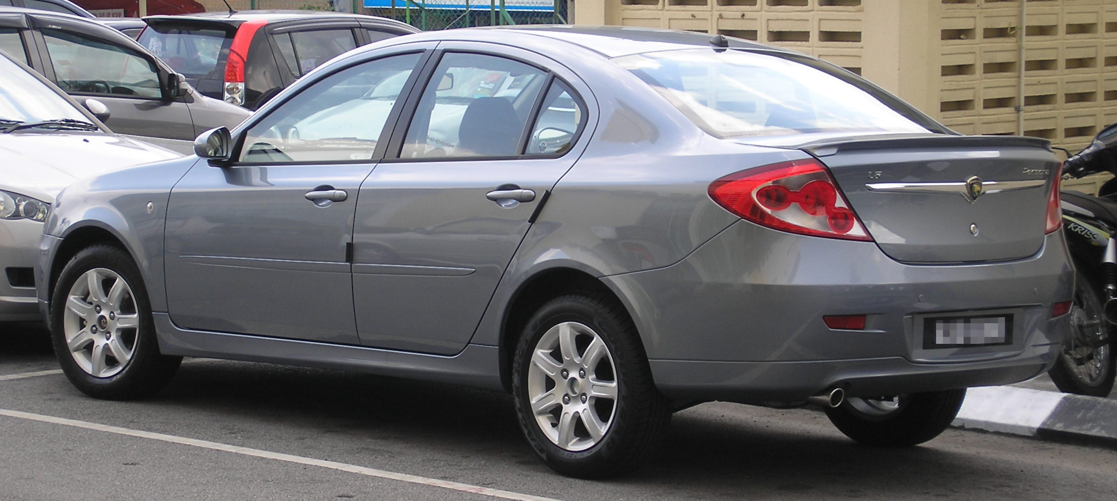 Rear-side shot of a registered Proton Persona in Serdang, Selangor, Malaysia.